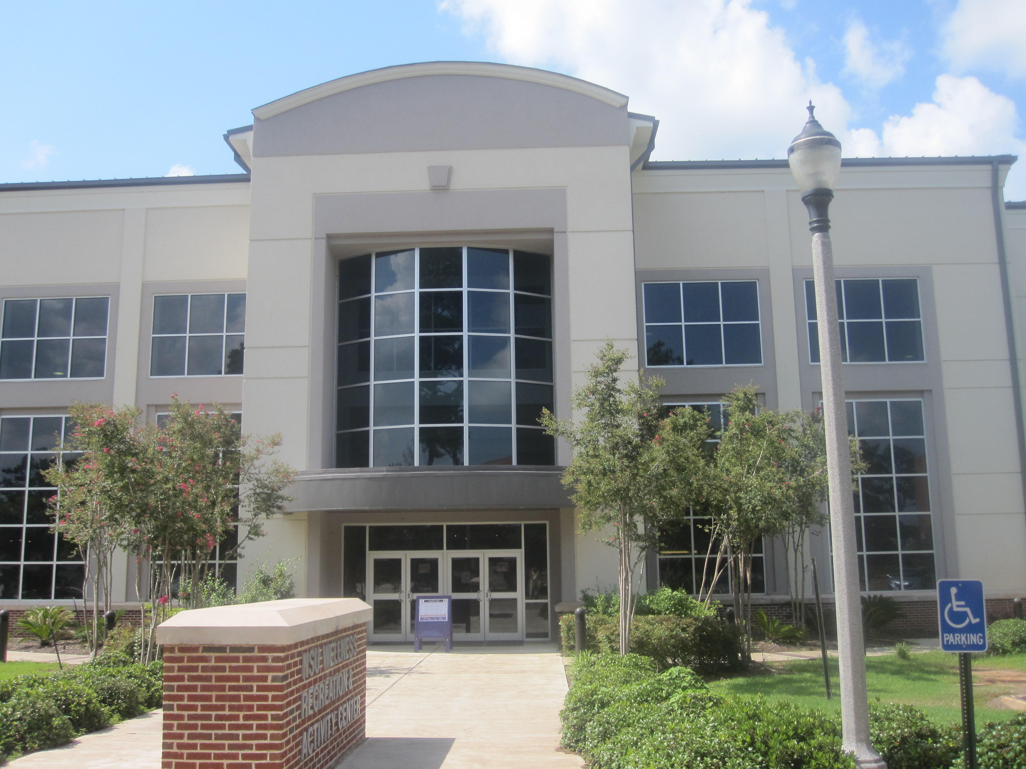 Revised photo of NSU Student Recreation Center, Natchitoches, LA